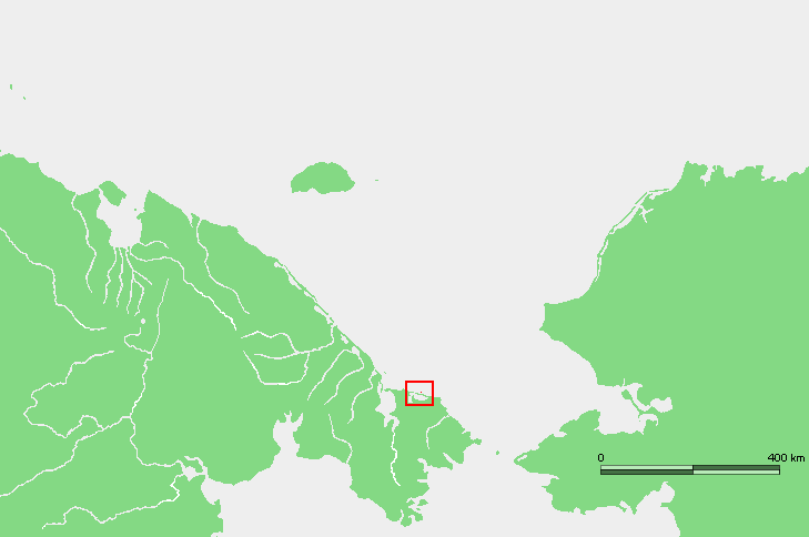 location map